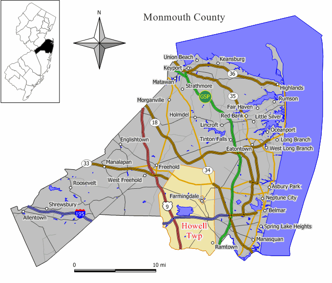 Source: Jim Irwin